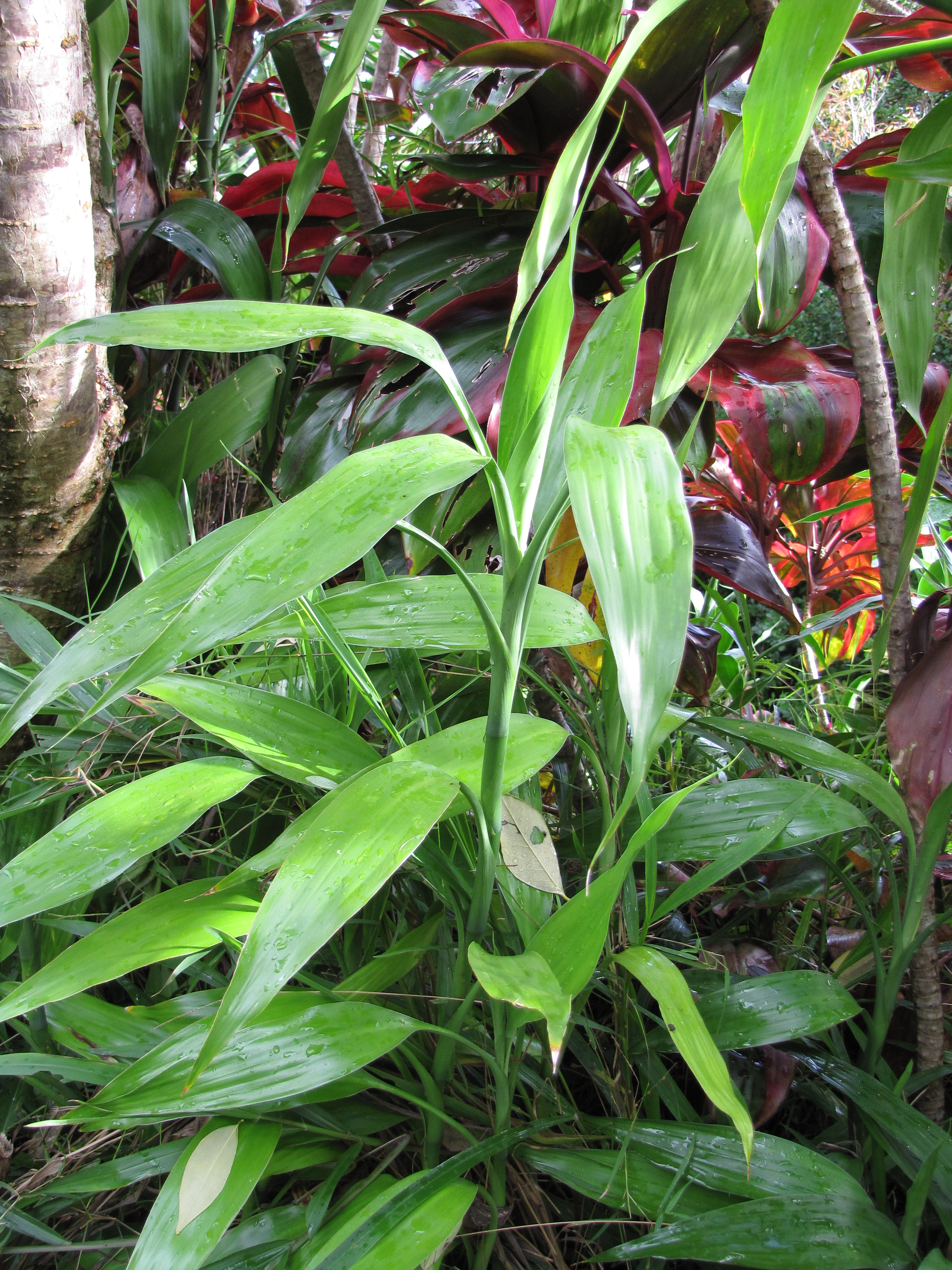 Dracaena sanderiana (Lucky bamboo) Habit at Garden of Eden Keanae, Maui, Hawaii. March 30, 2011 #110330-3595 Image Use Policy Also placed in Agavaceae.